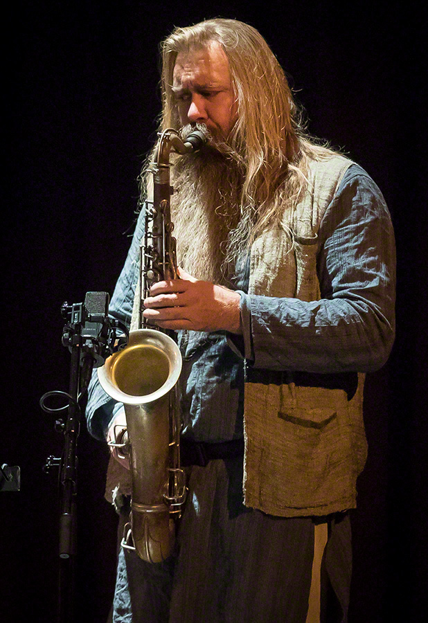 Trygve Seim at stage with Sinikka Langeland at Cosmopolite. The concert took place on 19. October 2016 in Oslo. Lineup:Sinikka Langeland (kantele)Trio Mediaeval (vocal)Arve Henriksen (trumpet)Trygve Seim (saxophone)Anders Jormin (double bass)Markku Ounaskari (drums)Trio Mediaeval is: Anna Maria Friman (vocal)Linn Andrea Fuglseth (vocal)Torunn Østrem Ossum (vocal)